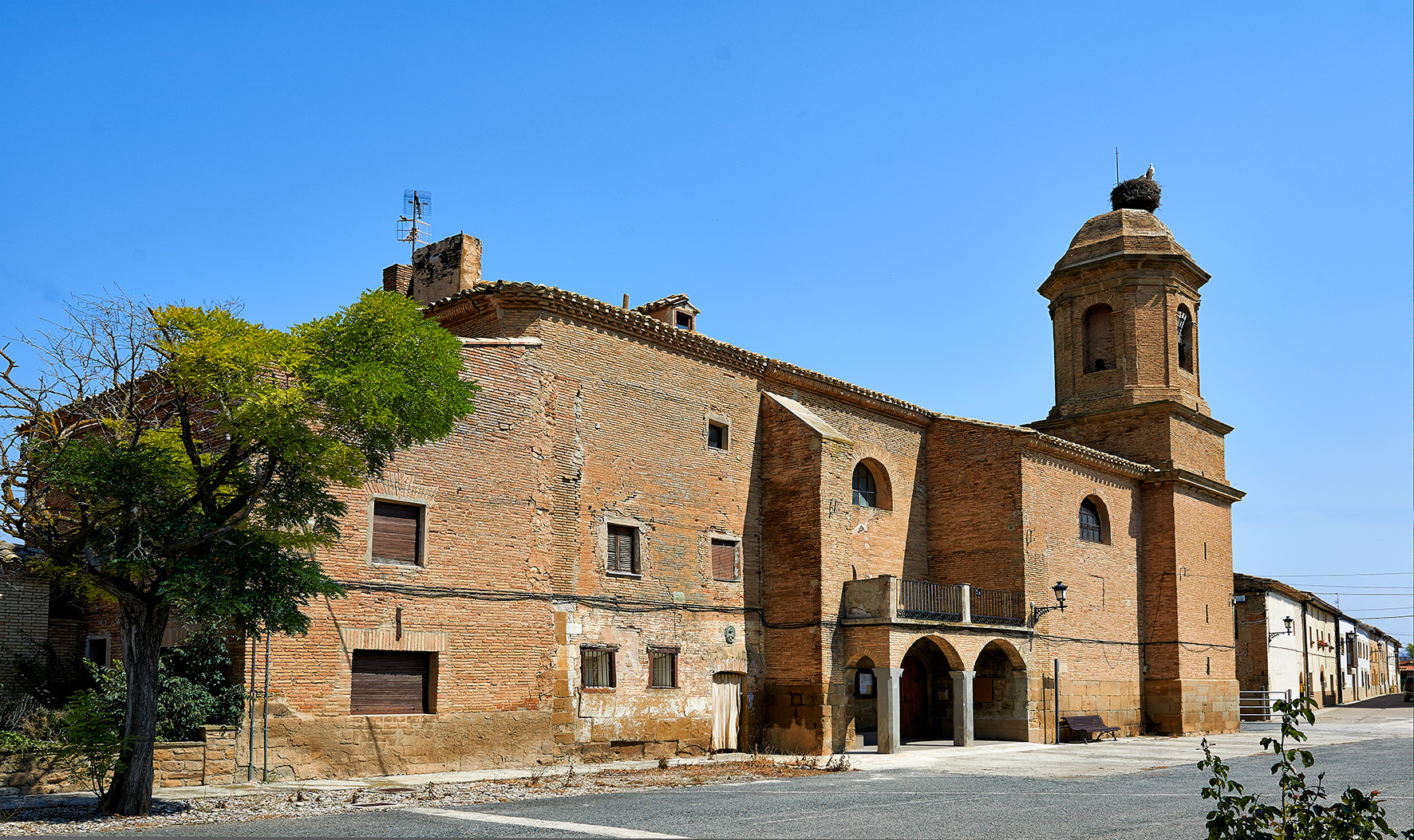 San Juan Bautista church of Traibuenas (Navarra, Spain)